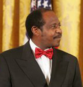 Paul Rusesabagina, receiving a Presidential Medal of Freedom in 2005